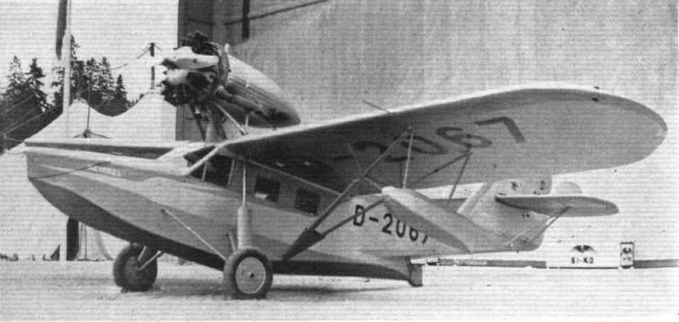 Three-quarter front view of Heinkel HE 57 at Stockholm International Aero Show 1931 (from Flight 1931-05-29, pag.472).